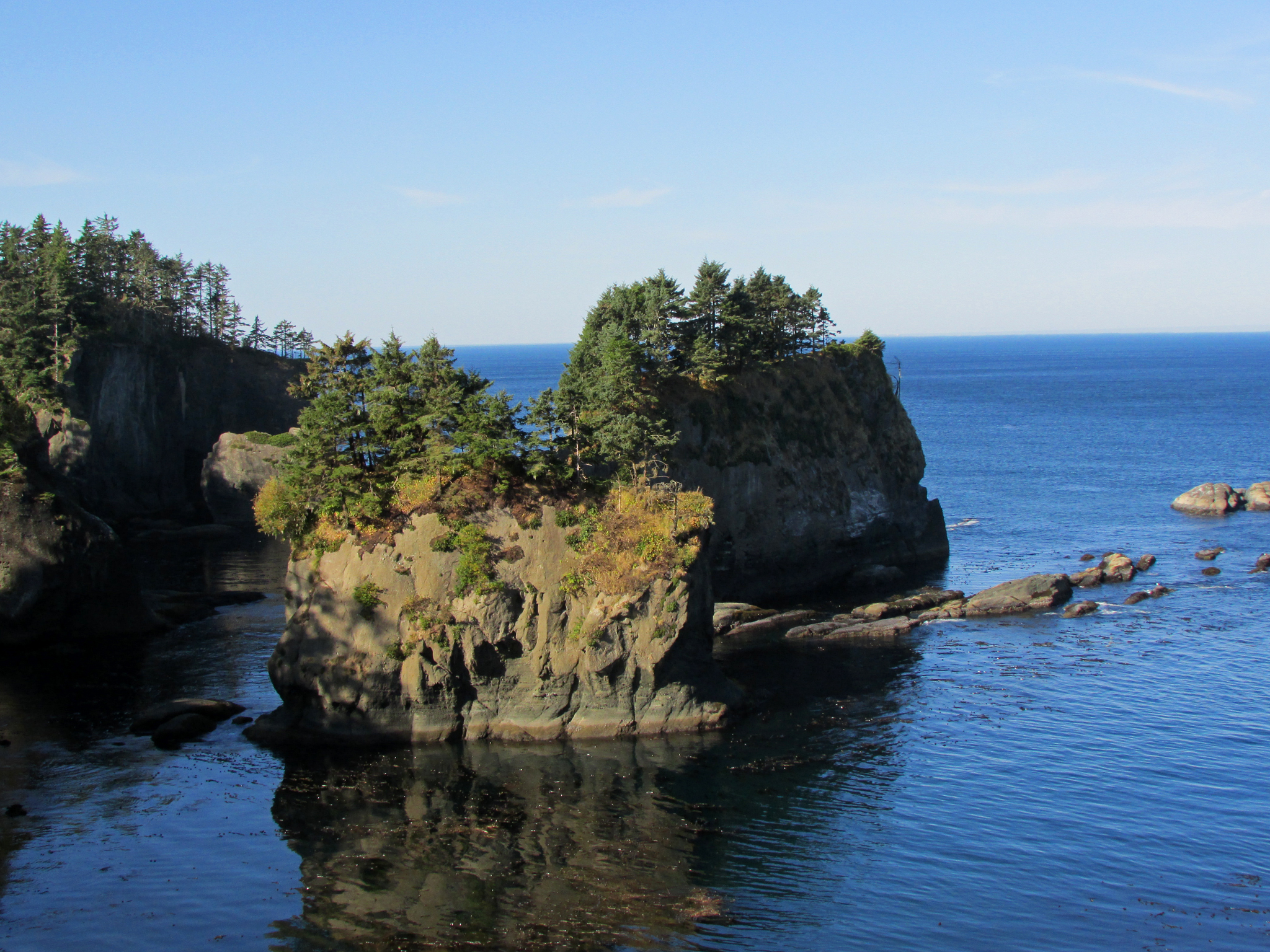 Cape Flattery at Pacific Coast in Washington in The Pacific Northwest | Landscapes in The West by Jeff Hollett